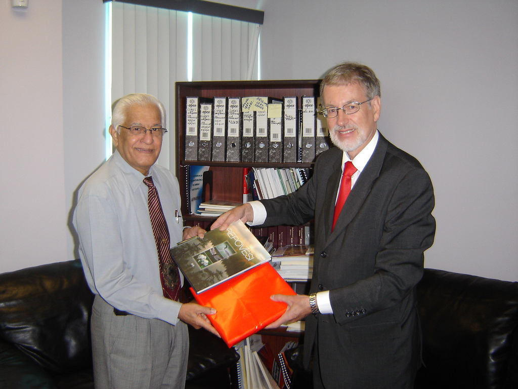 Panday and the Ambassador of Finland Mikko Pyhälä Photo uploaded by